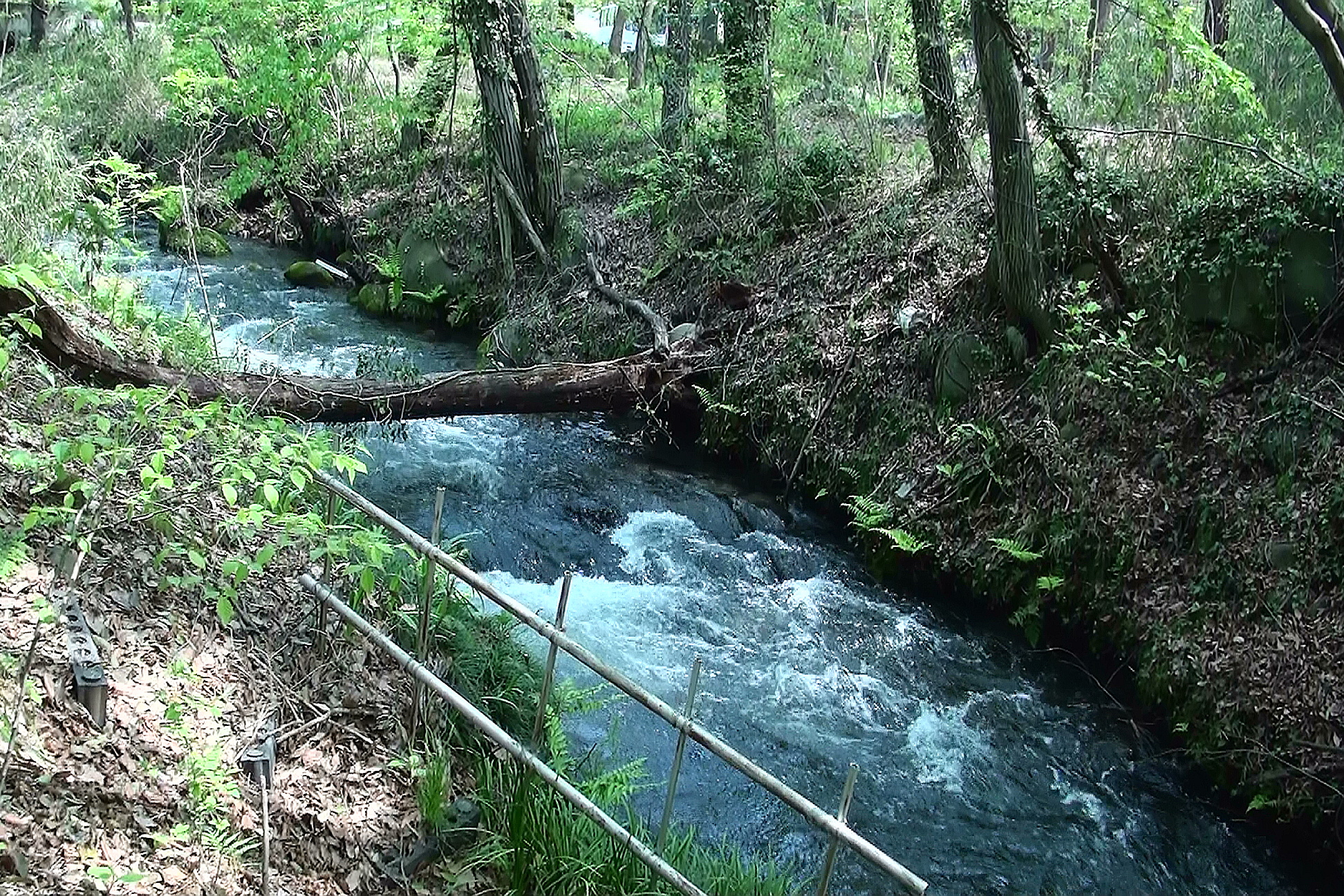 The brook which flows through Manriki-Park Yamanashi-city